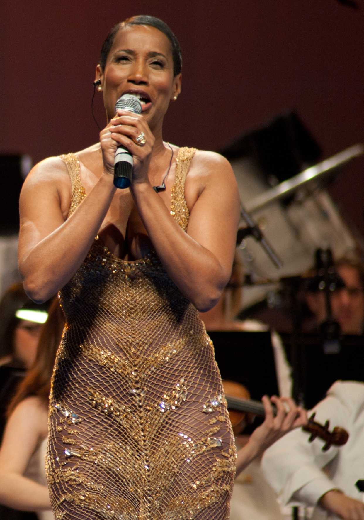 Brazilian singer Daúde during Ministry of Culture event © Pedro França/MinC